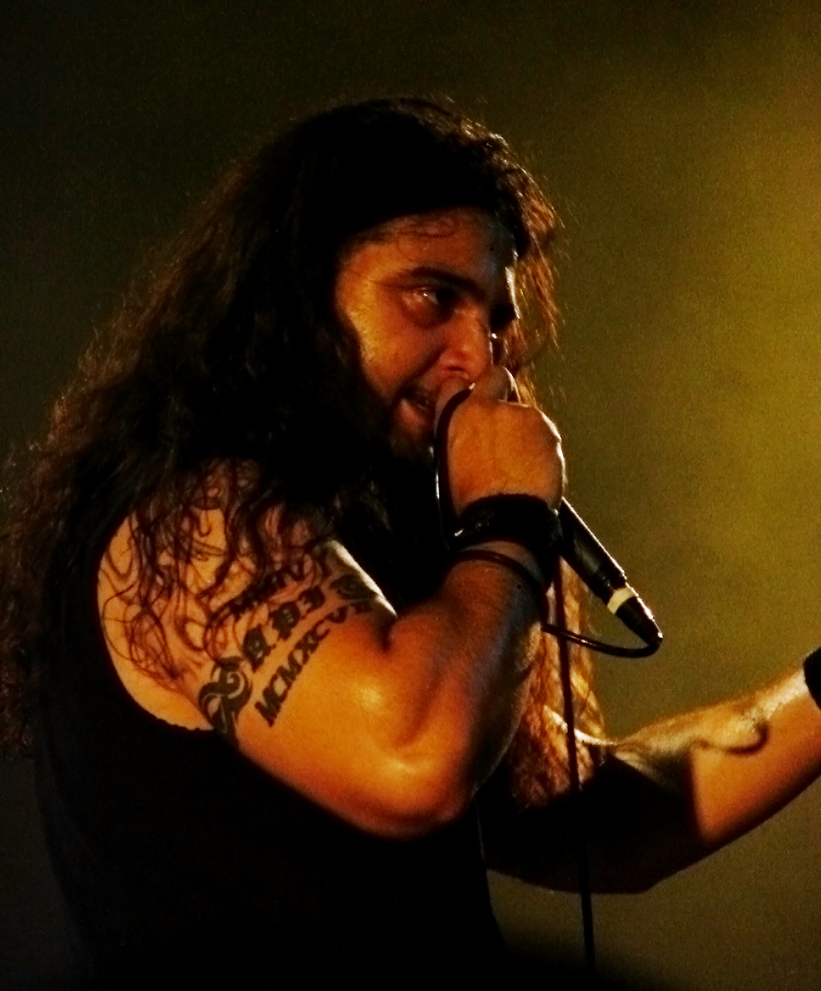 Kataklysm, a Canadian death metal band, during their concert in Strasbourg (France). 06/10/07.